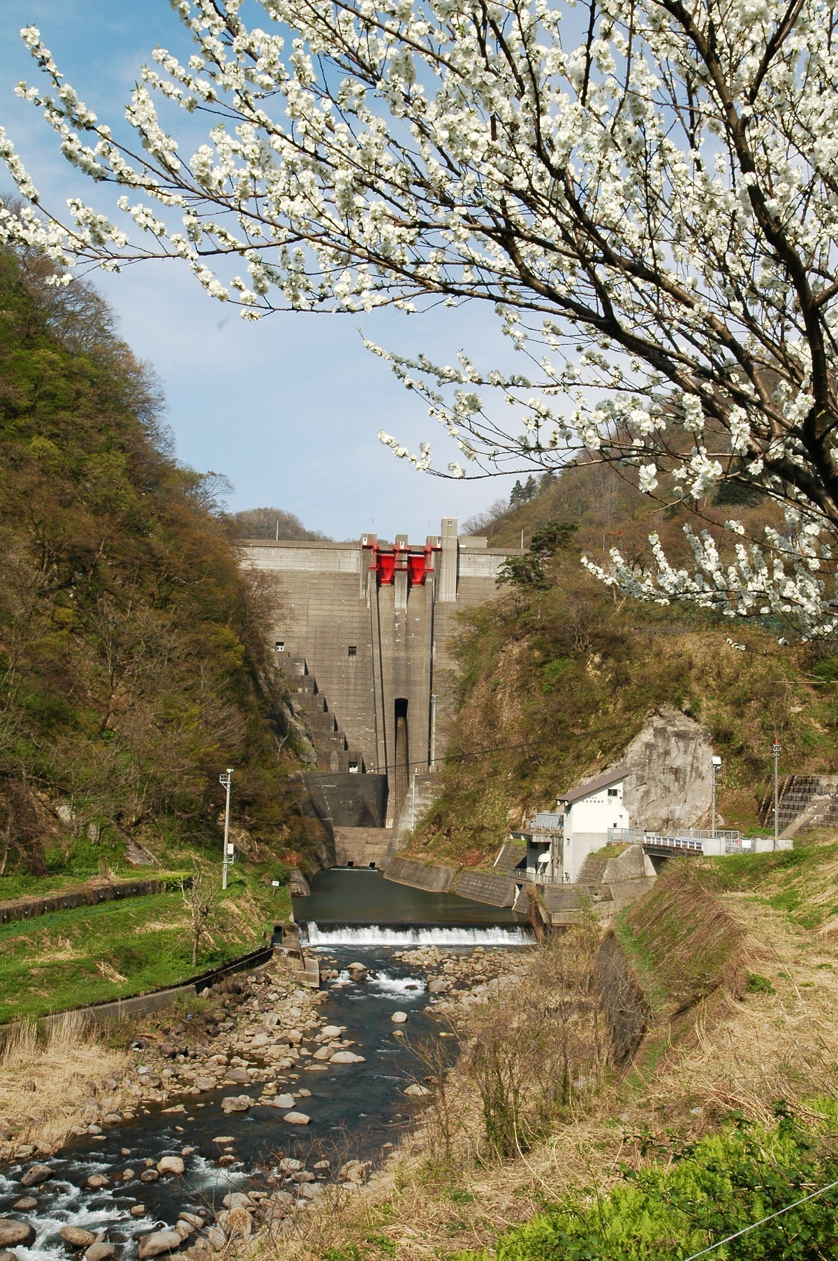 Kariyatagawa Dam, Nagaoka, Niigata Prefecture, Japan